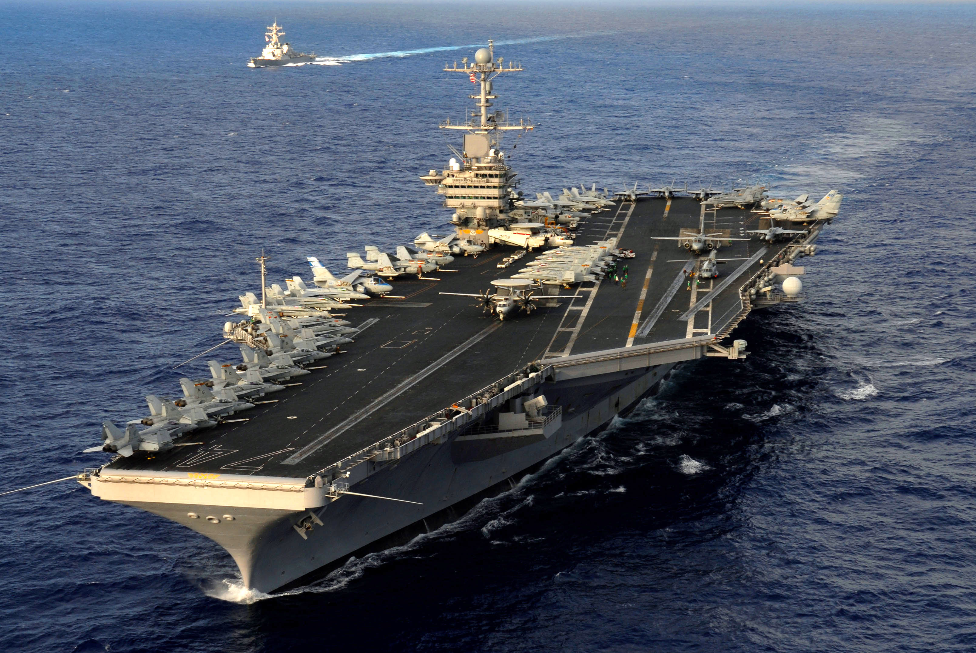 Pacific Ocean (Feb. 6, 2007) - USS John C. Stennis (CVN 74) and USS O'kane (DDG 77) move into formation in preparation for a photo exercise along with USS Preble (DDG 88), USS Antietam (CG 54) and USNS Bridge (T-AOE-10), off the coast of Guam. John C. Stennis Carrier Strike Group is conducting flight and Integrated Strike Group operations off the coast of Guam after entering the 7th Fleet area of responsibility Jan. 31. U.S. Navy photo by Mass Communication Specialist 3rd Class Ron Reeves (RELEASED)